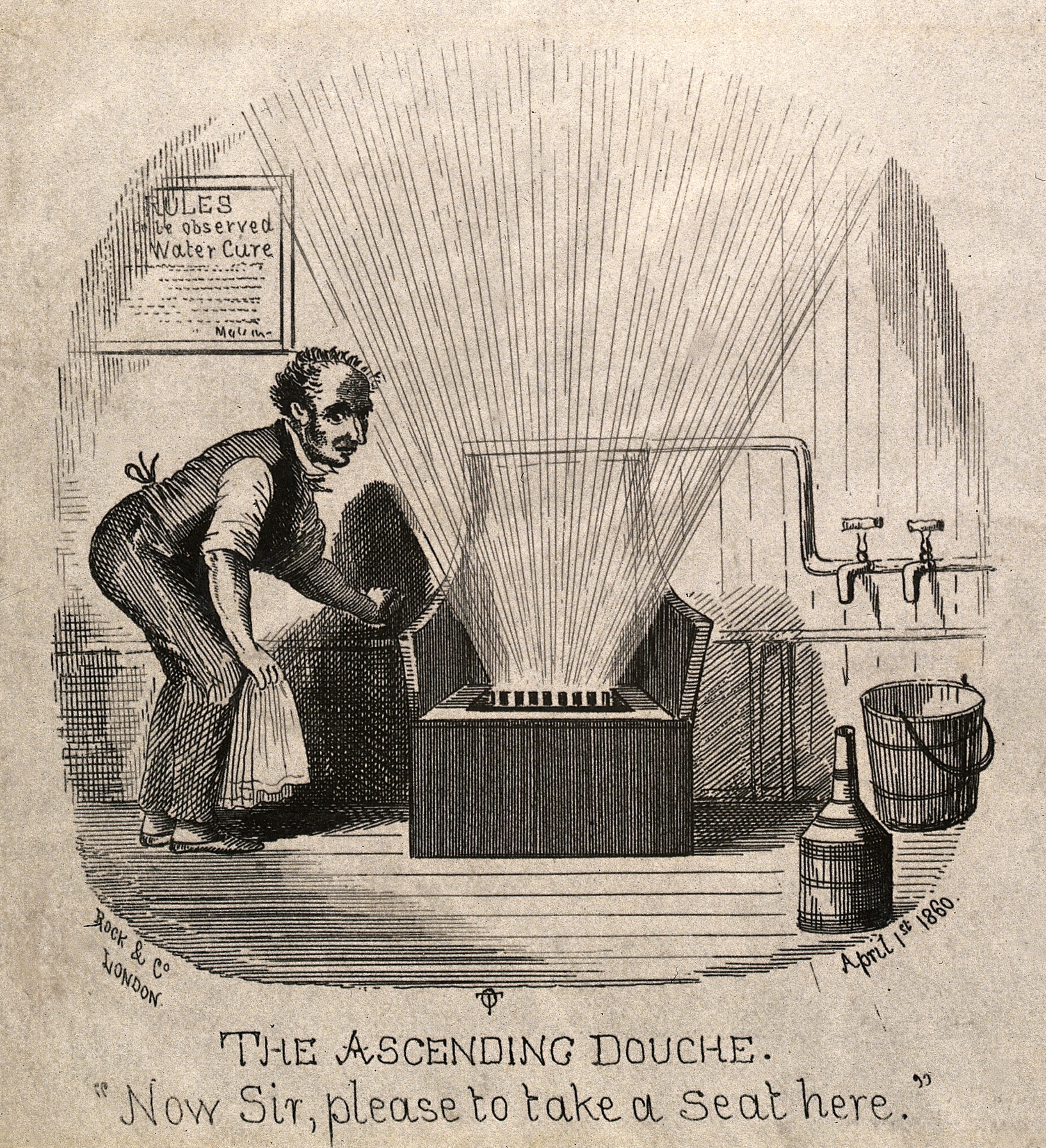 A man operating a specially designed hydrotherapeutic chair. Wood engraving by O.T., 1860. Iconographic Collections Keywords: Hydrotherapy; Caricatures; O. T.; wood engravings